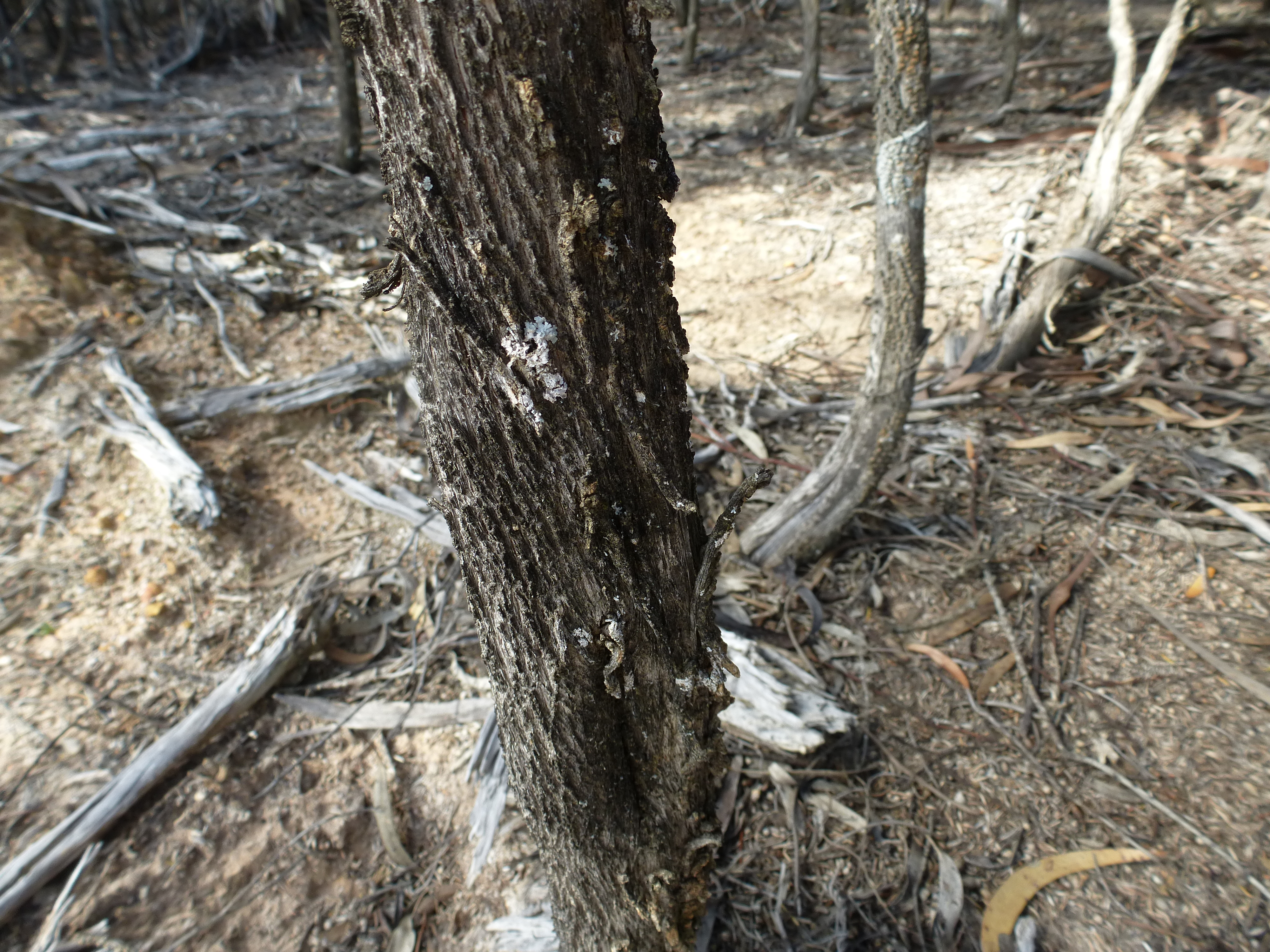 Melaleuca spicigera growing 20 km east of Hyden